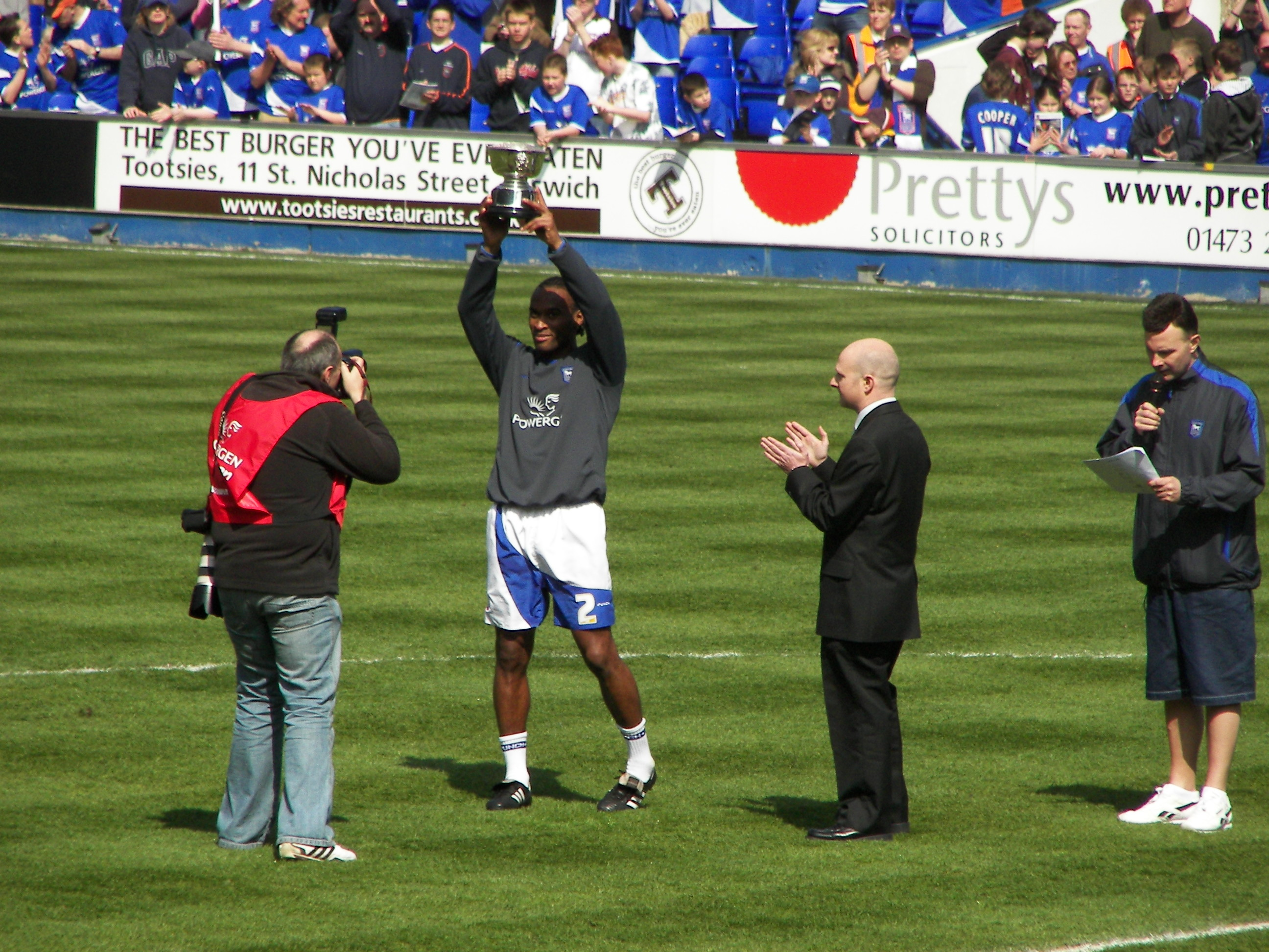 Fabian Wilnis receiving the Player of The Year Award